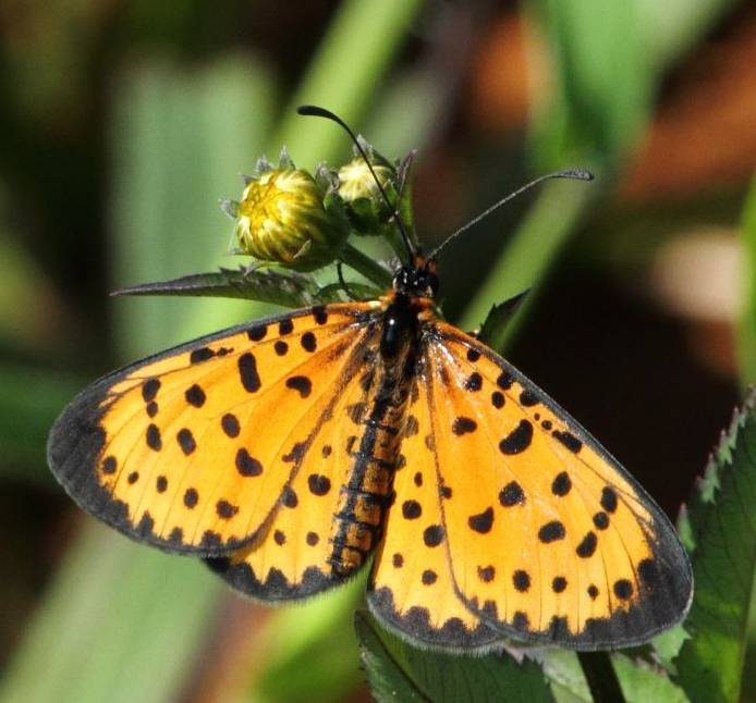 At Cedara, KwaZulu-Natal, South Africa